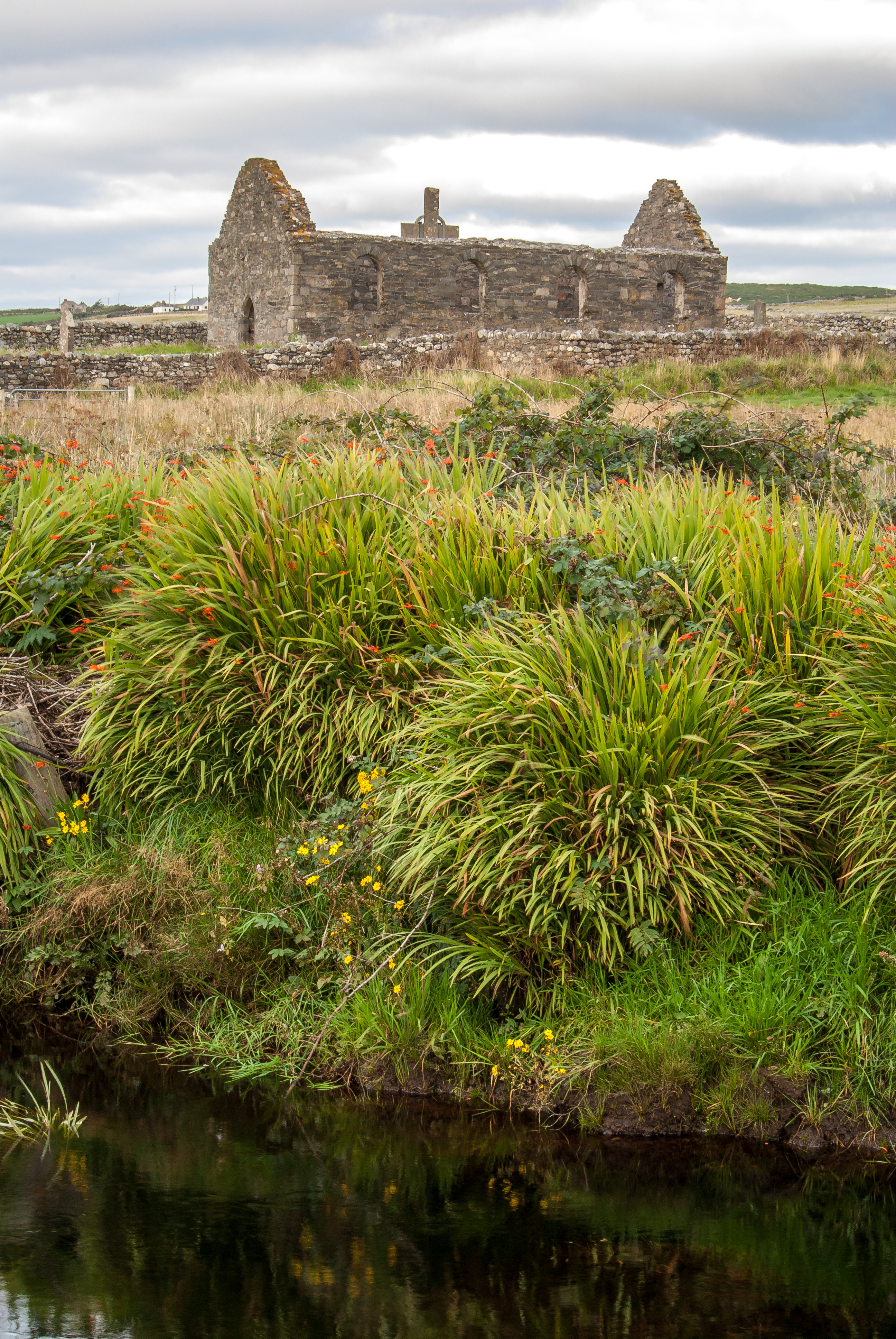 Teampall Ráithe (Ray Church) is a Medieval church, situated in the parish of Cloich Cheann Fhaola in West Donegal, Ireland.